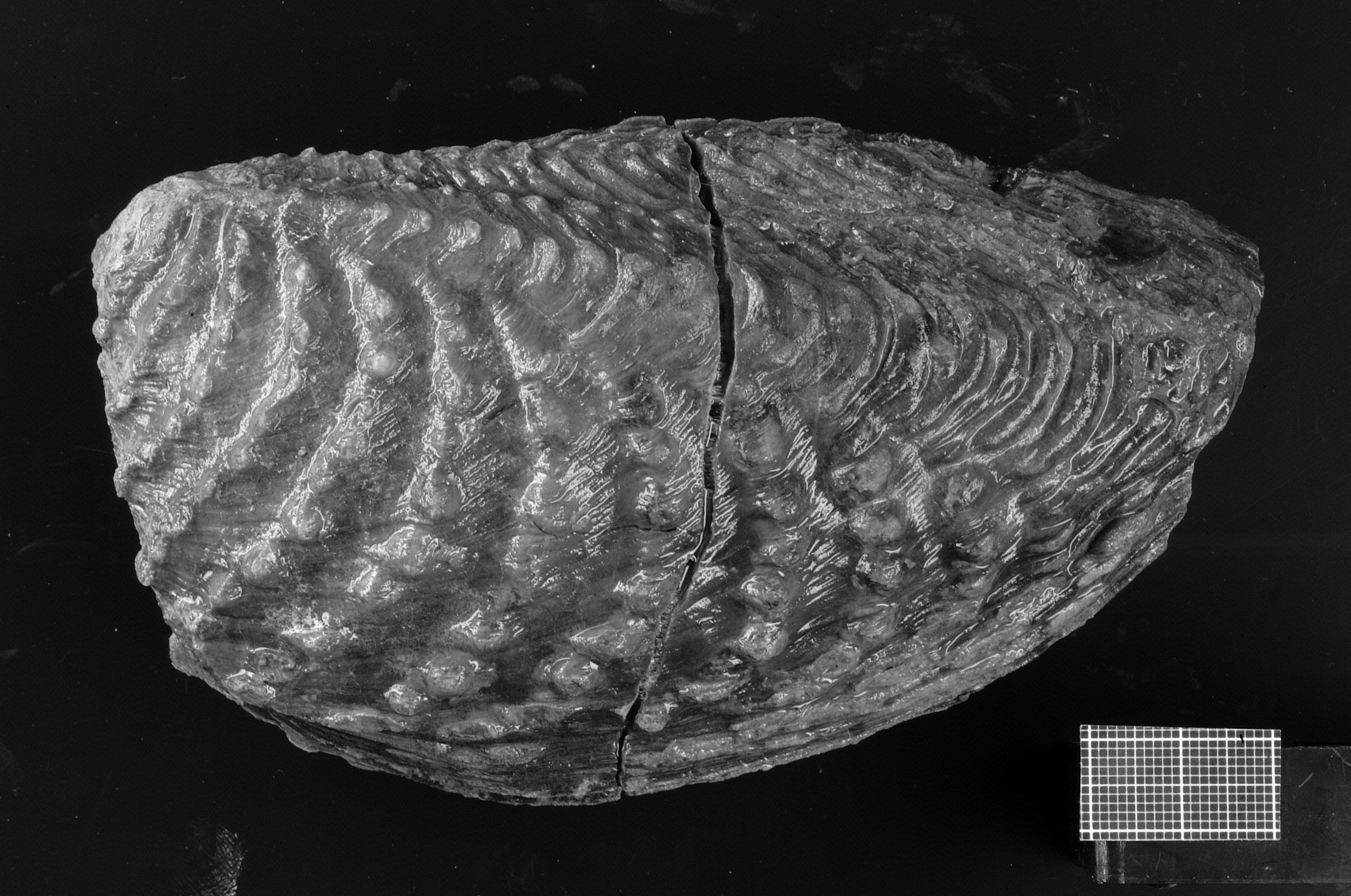 Left view of a specimen of Steinmanella vacaensis from the Agua de la Mula Member of the Agrio Formation, in Argentina.